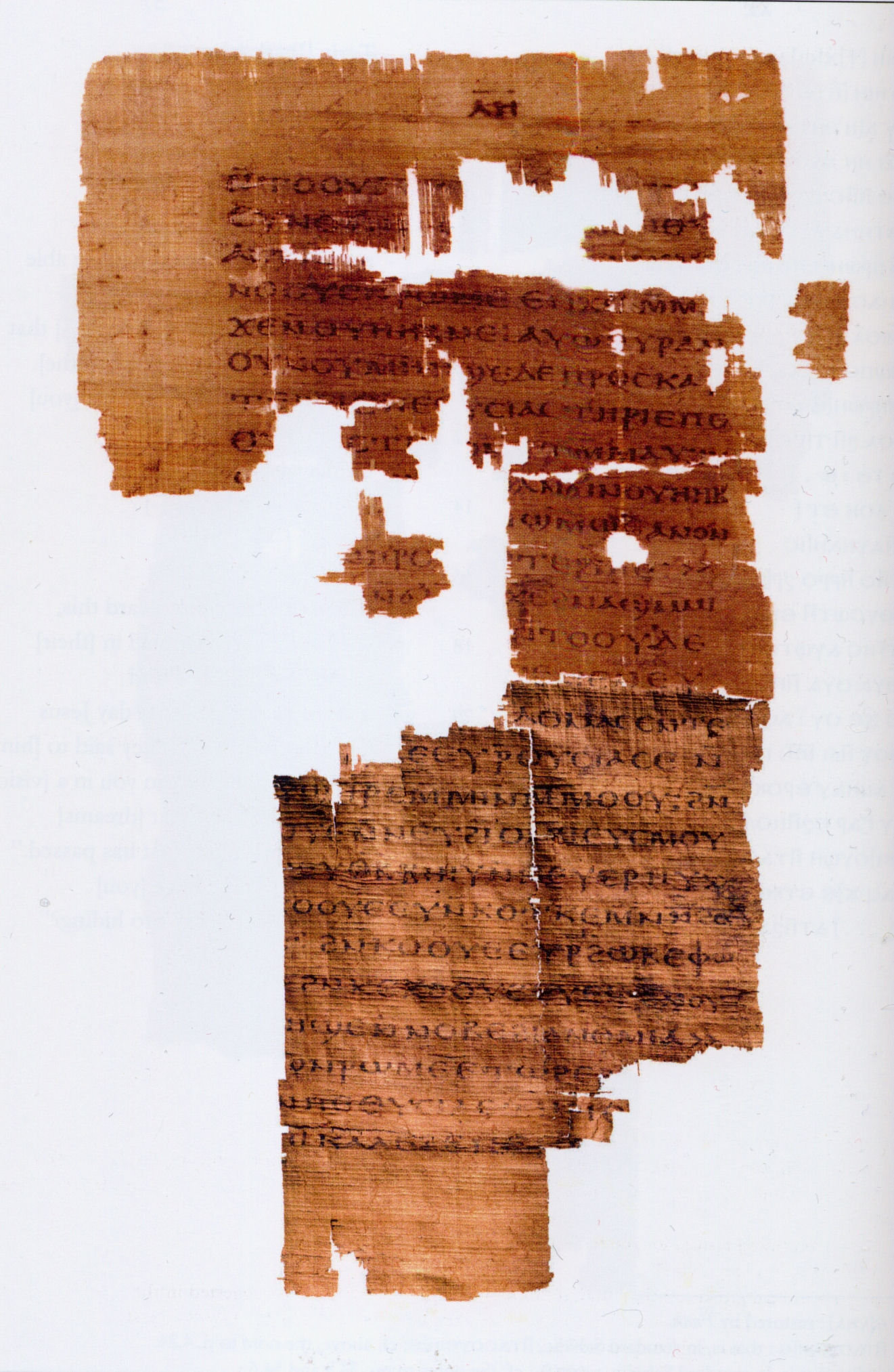 Page from Codex Tchacos.